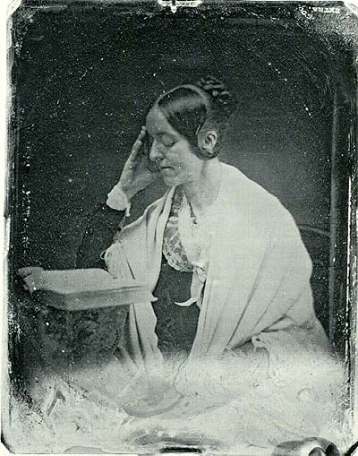 Daguerreotype of Margaret Fuller (1810-1850). Further information from Margaret Fuller: An American Romantic Life (Volume 1) by Charles Capper: The original daguerreotype, which has been lost, dates to July 1846 and was taken by Albert Sands Southworth. It was taken one month before she left the United States for Europe on assignment for the New York Tribune. It is the only known surviving photo of Fuller. A copy was made in the early 1850s by Southworth and Hawes and is held at the Museum of Fine Arts in Boston, Massachusetts.